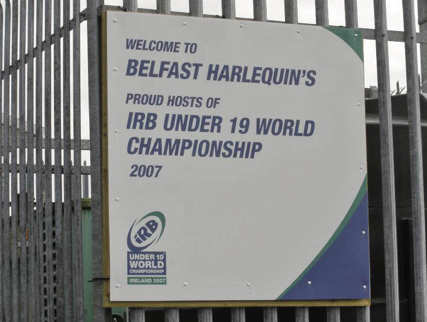 The gates of Deramore Park, house of Belfast Harlequins